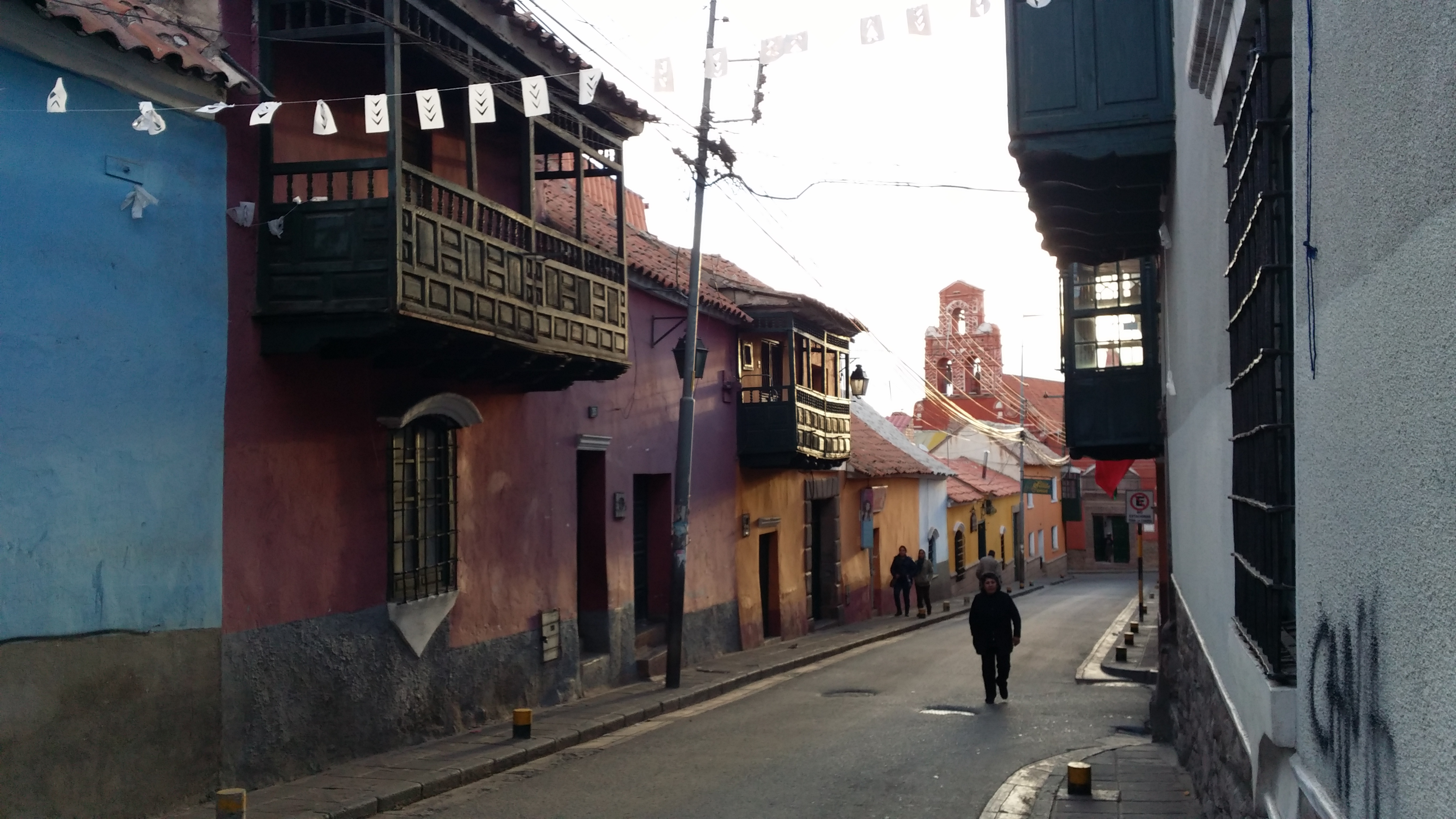 Calle Ayacucho with Convento de Santa Teresa in the background. Potosí, Bolivia.